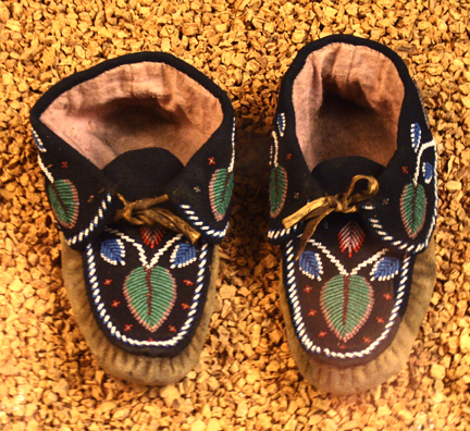 Penobscot beaded moccasins on display at the American Museum of Natural History, New York